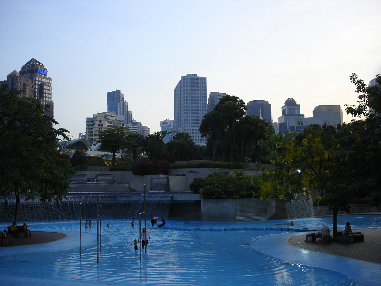 The wading pool in KLCC Park.